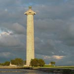 Perry's Victory and International Peace Memorial. }Commemorating Commodore Oliver Hazard Perry's September 10, 1813 naval victory over British ships in the Battle of Lake Erie in the War of 1812., Put-In-Bay.